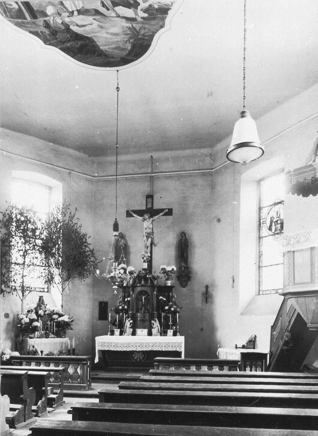 Kirchardt, katholische Kirche (1952) im Giebel datiert 1810, 1966 abgebrochen, Inneres nach Osten